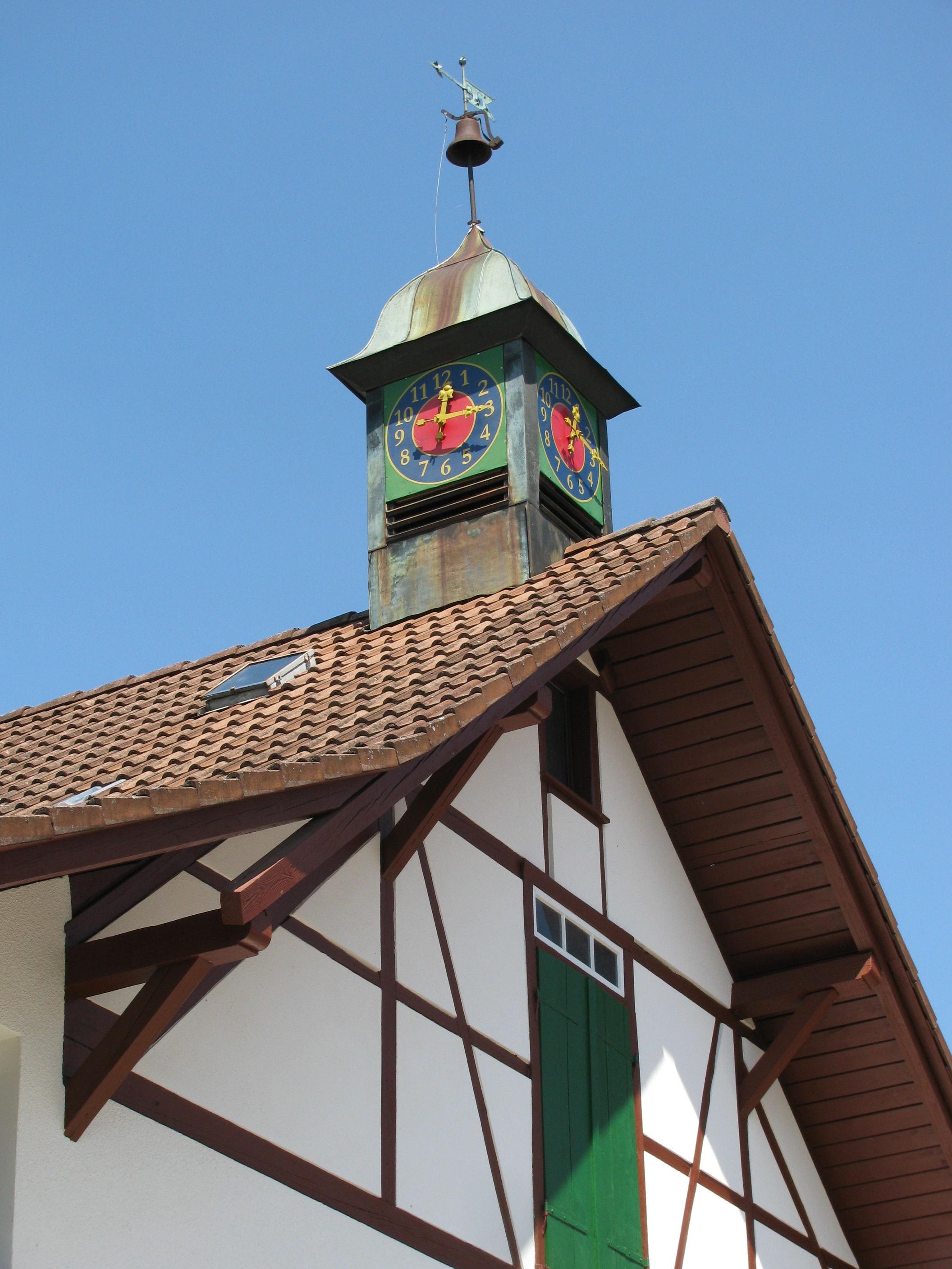 Germany - Baden-Württemberg - Bodenseekreis - Kressbronn am Bodensee - Heiligenhof: clock and bell